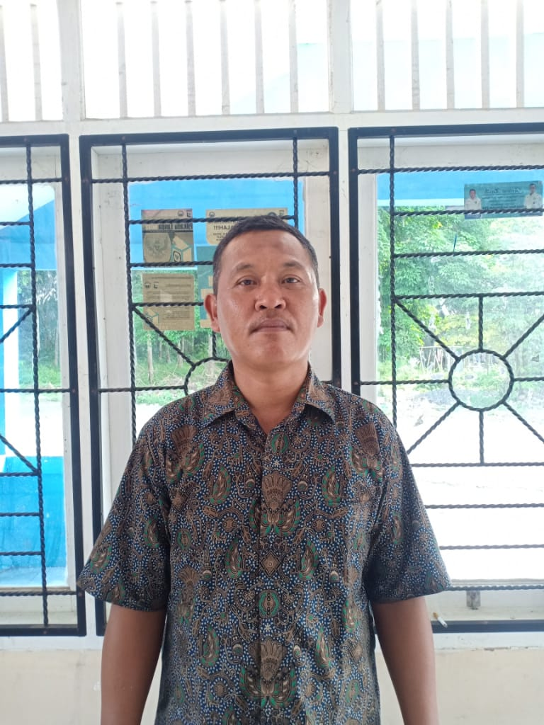 kaur umum